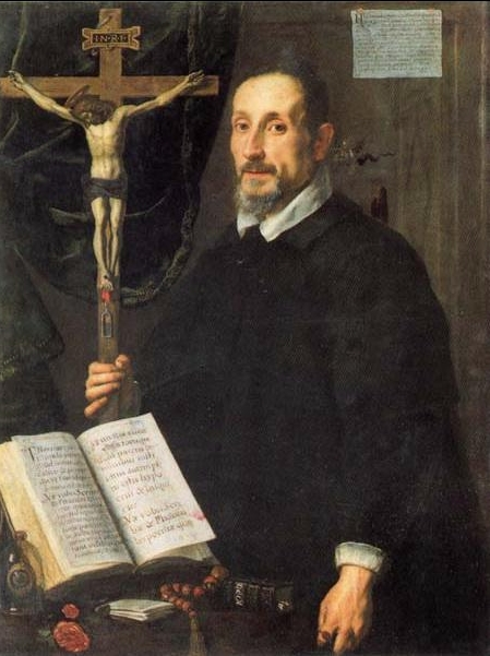 Portrait of Canon Pandolfo Ricasoli